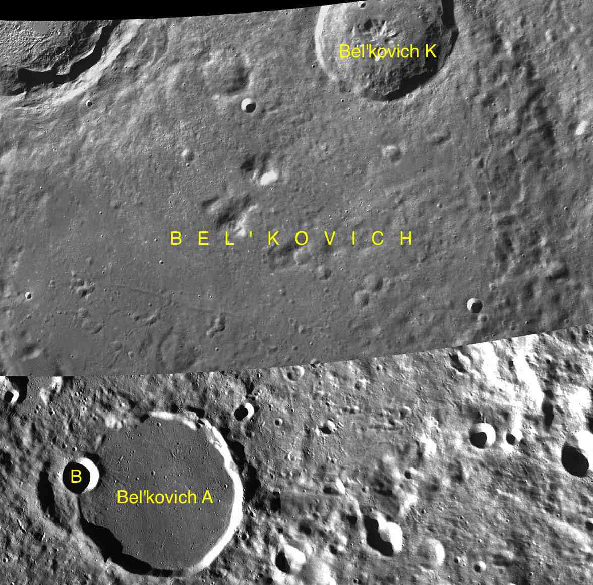 Part of the chart LAC-15 used for the presentation